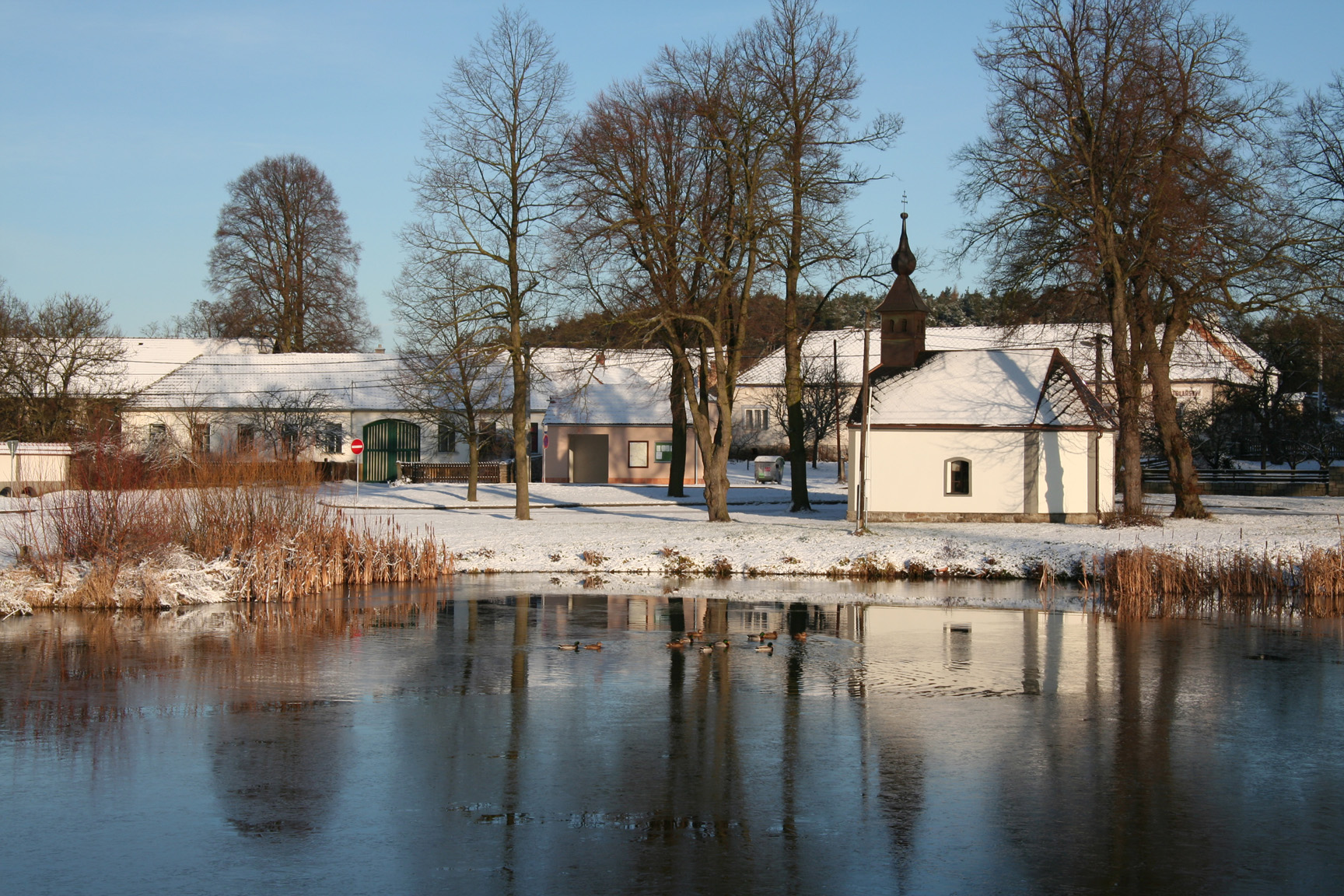 Center of Zahrádka